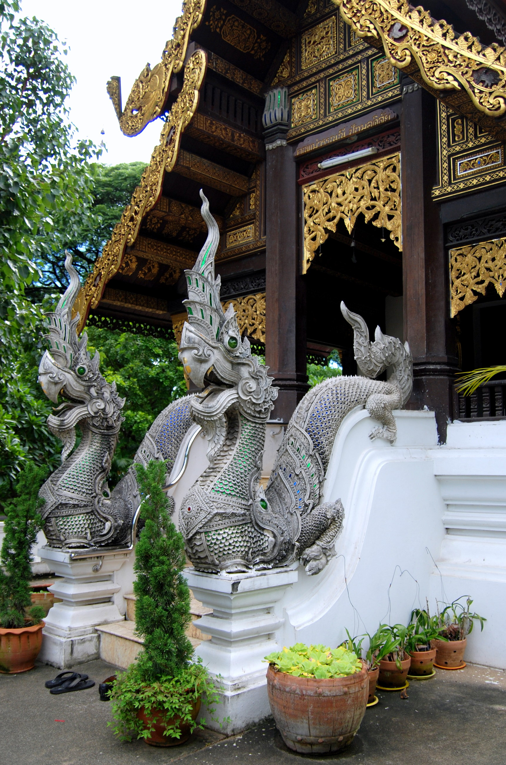 Nāgas emerging from the mouths of Makaras: This combination of mythical animals adorning the stairs of temple structures is typical for the classic Lanna (Northern Thai) style as seen here at one of the wihan buildings of Wat Chet Yot in Chiang Mai.